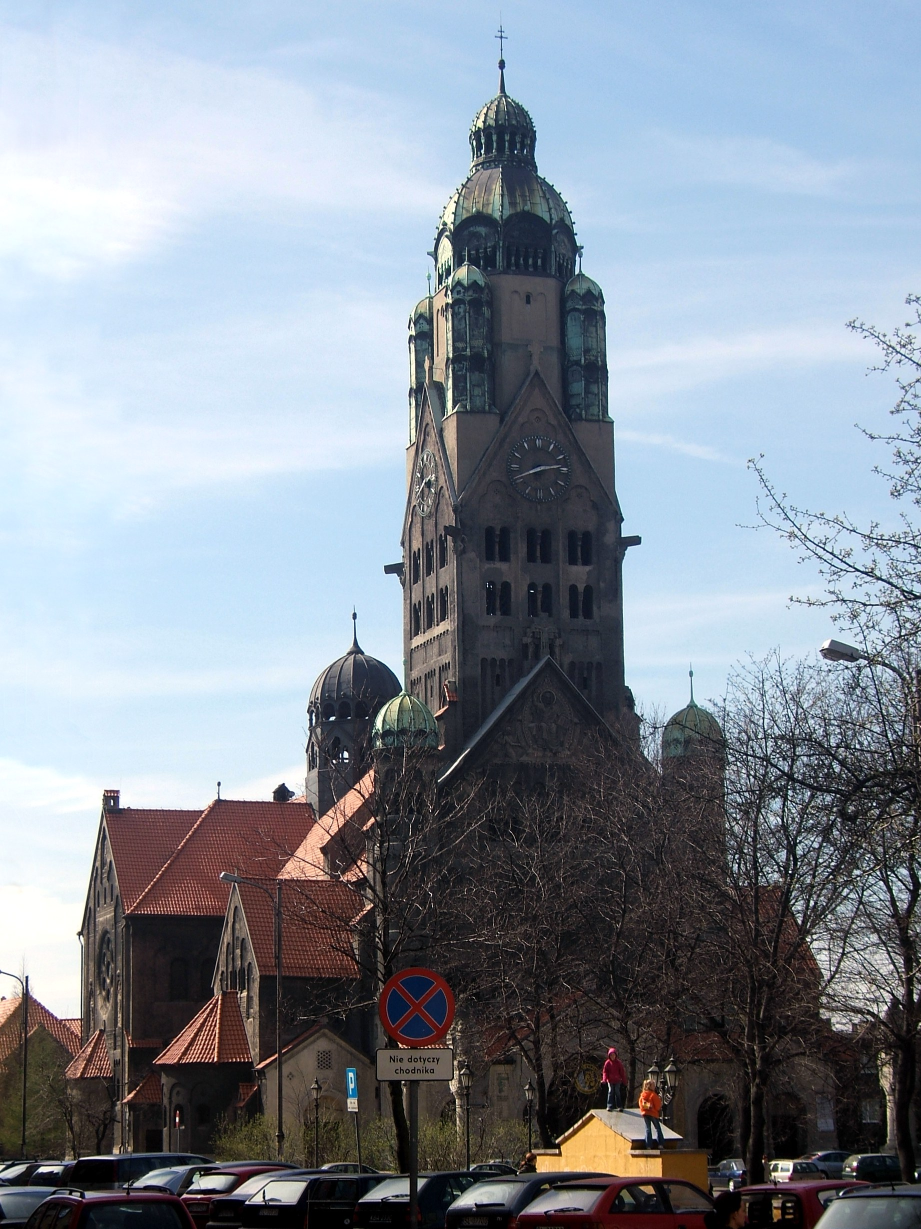 St. Paul's church in Nowy Bytom, a district of Ruda Śląska.